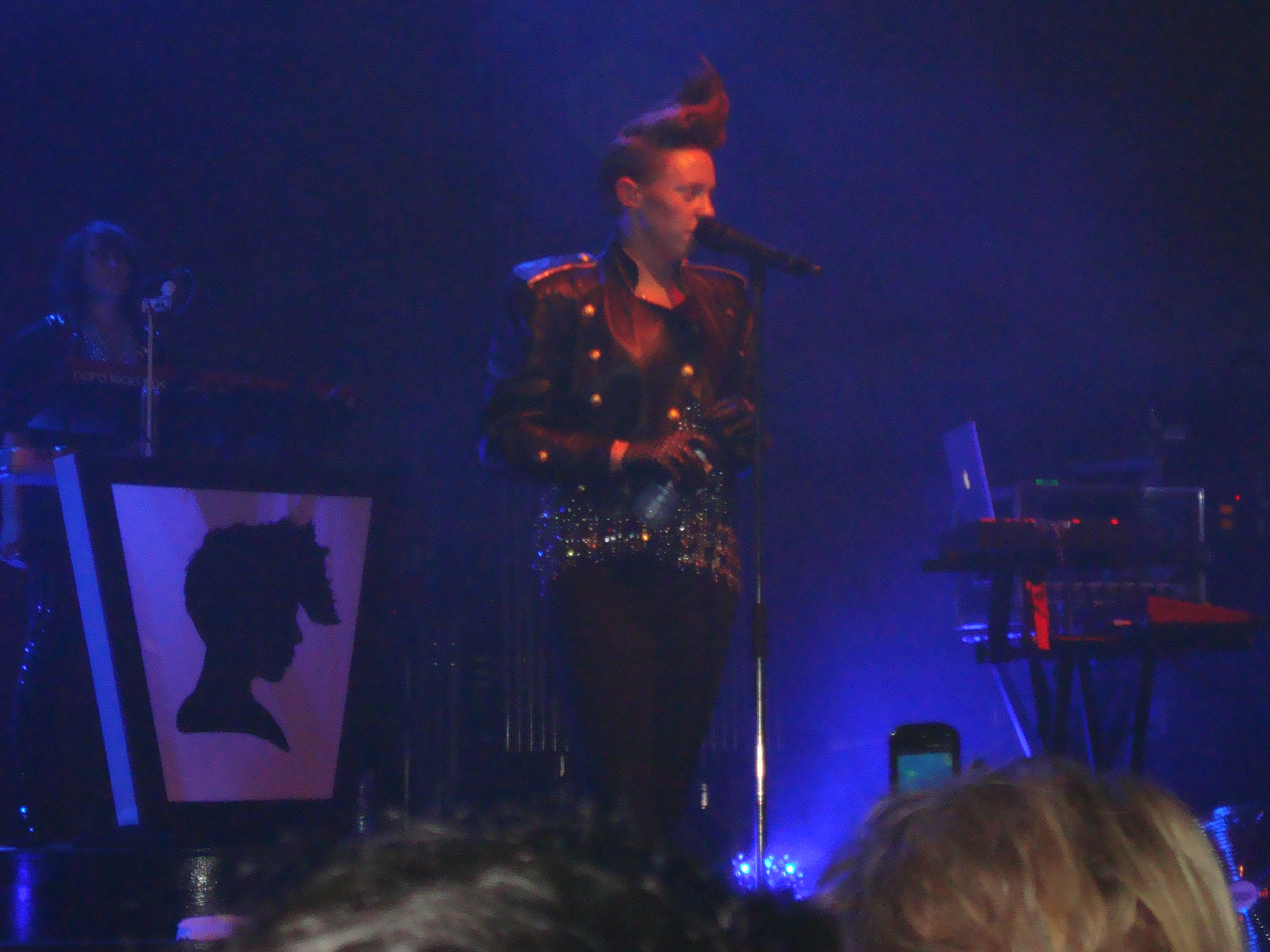 La Roux - Elly Jackson performing at The Warehouse Project in Manchester, November 2009